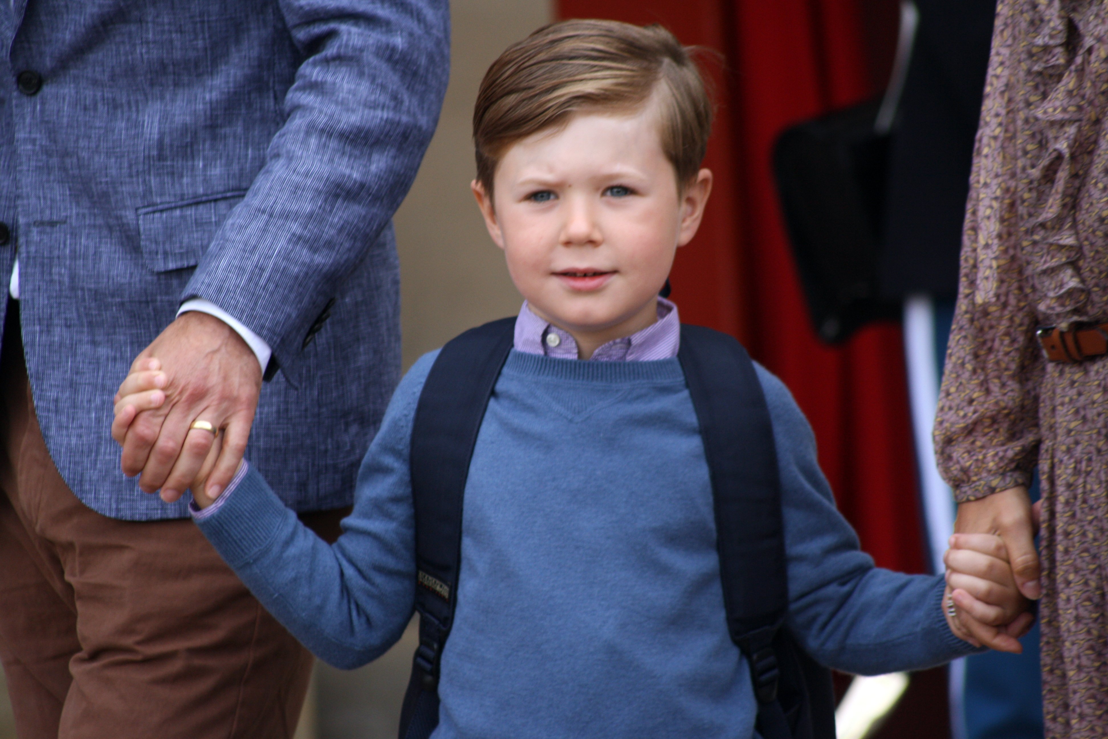 Prince Christian of Denmark being escorted to school by his parents, the Crown Princess and Crown Princess of Denmark.